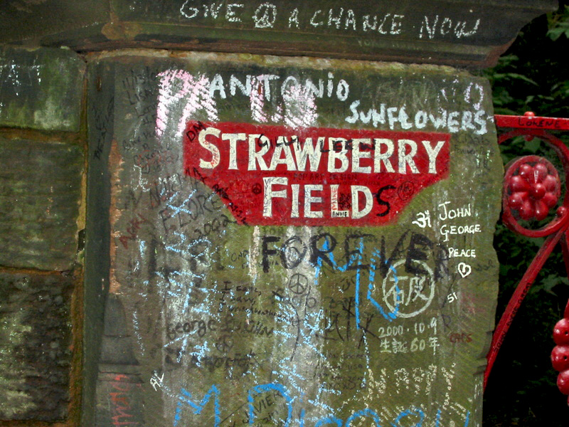 Salvation army orphanage that lent its name to "Strawberry Fields Forever" by The Beatles.Helligdom nr. 2 m. rettelse (2002 :-)